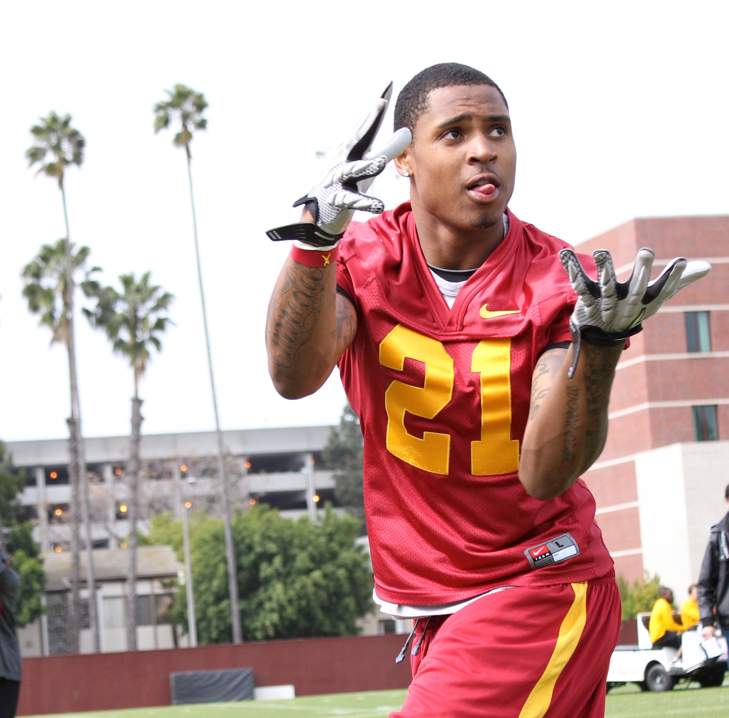 (Shotgun Spratling/Neon Tommy)